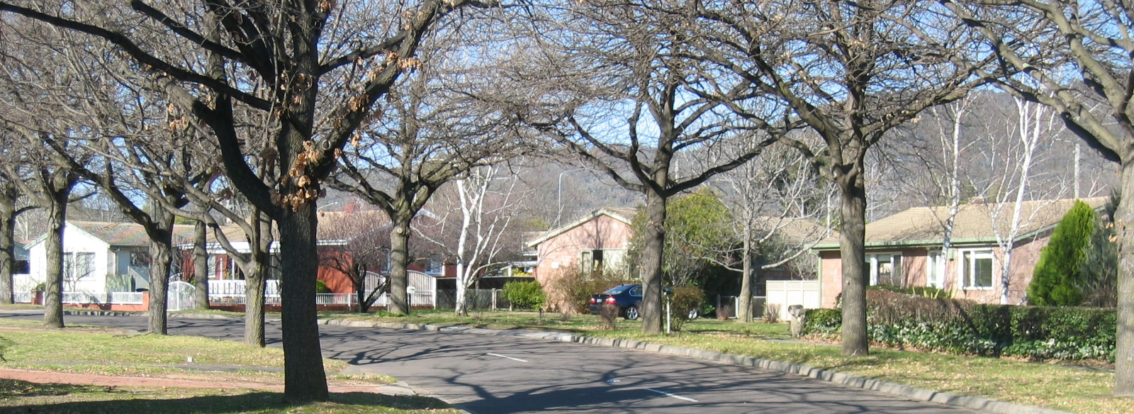 Houses in Dickson, Australin Capital Territory. Photo taken by User:Adz on 14 Aug 2005.